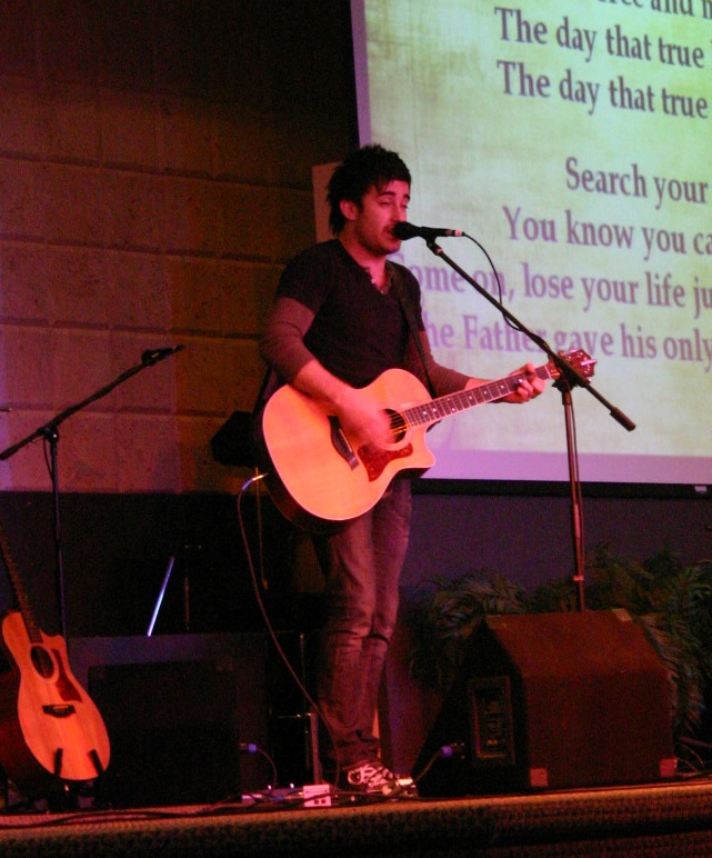 Christian artist Phil Wickham in concert on January 21, 2008.